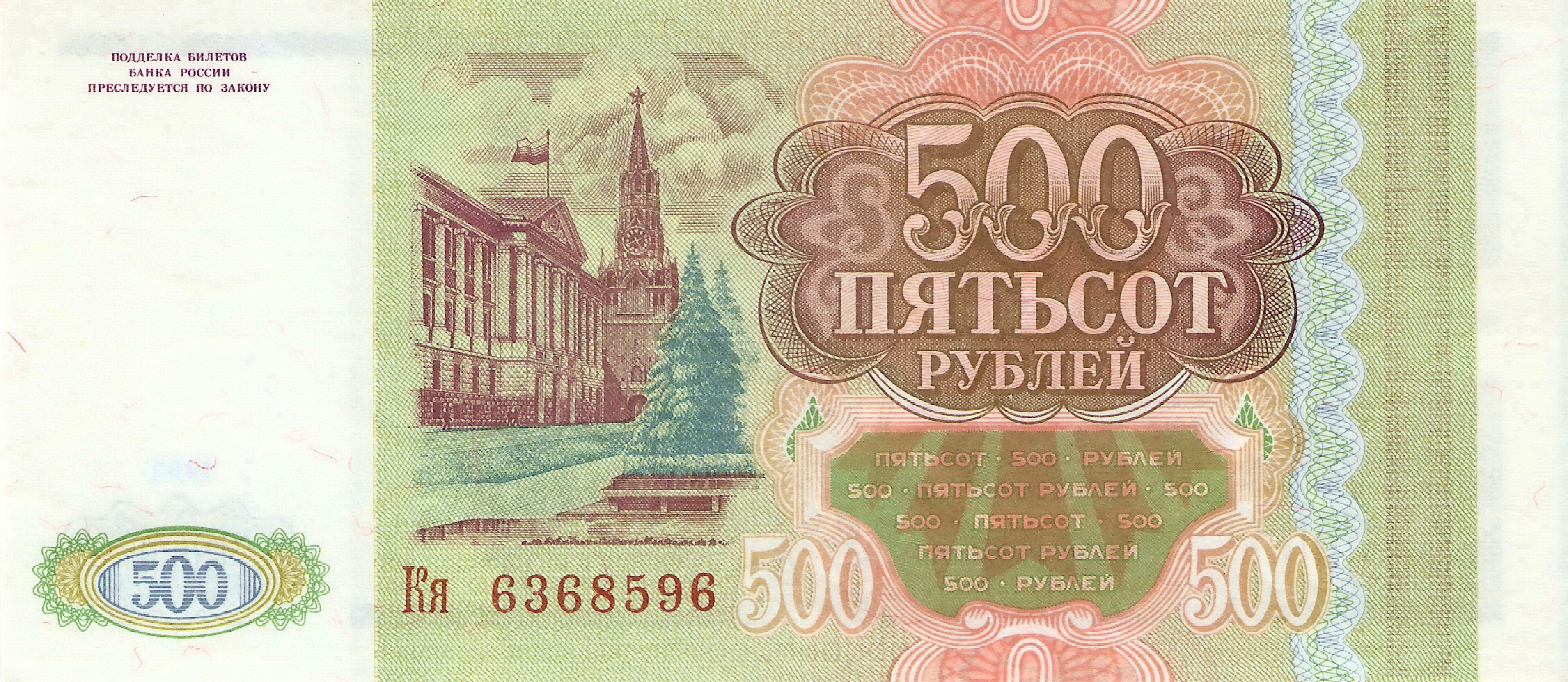 Russian banknote. 500 rubles. Version of 1993 year. Back